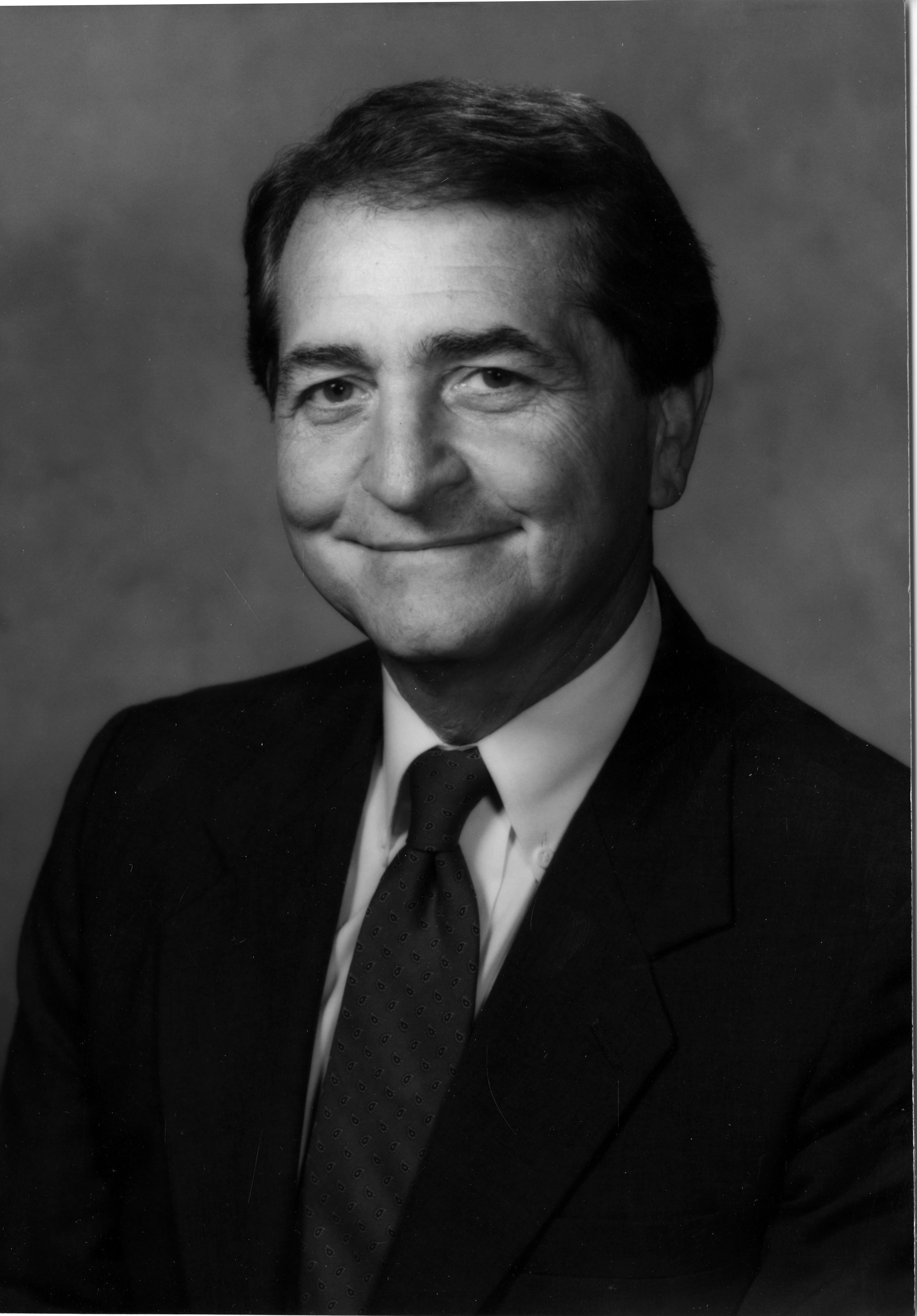 A portrait of Nick Theodore, SC State Senator (1967-1969; 1981-1987) and Lt. Gov. of South Carolina (1987-1995)